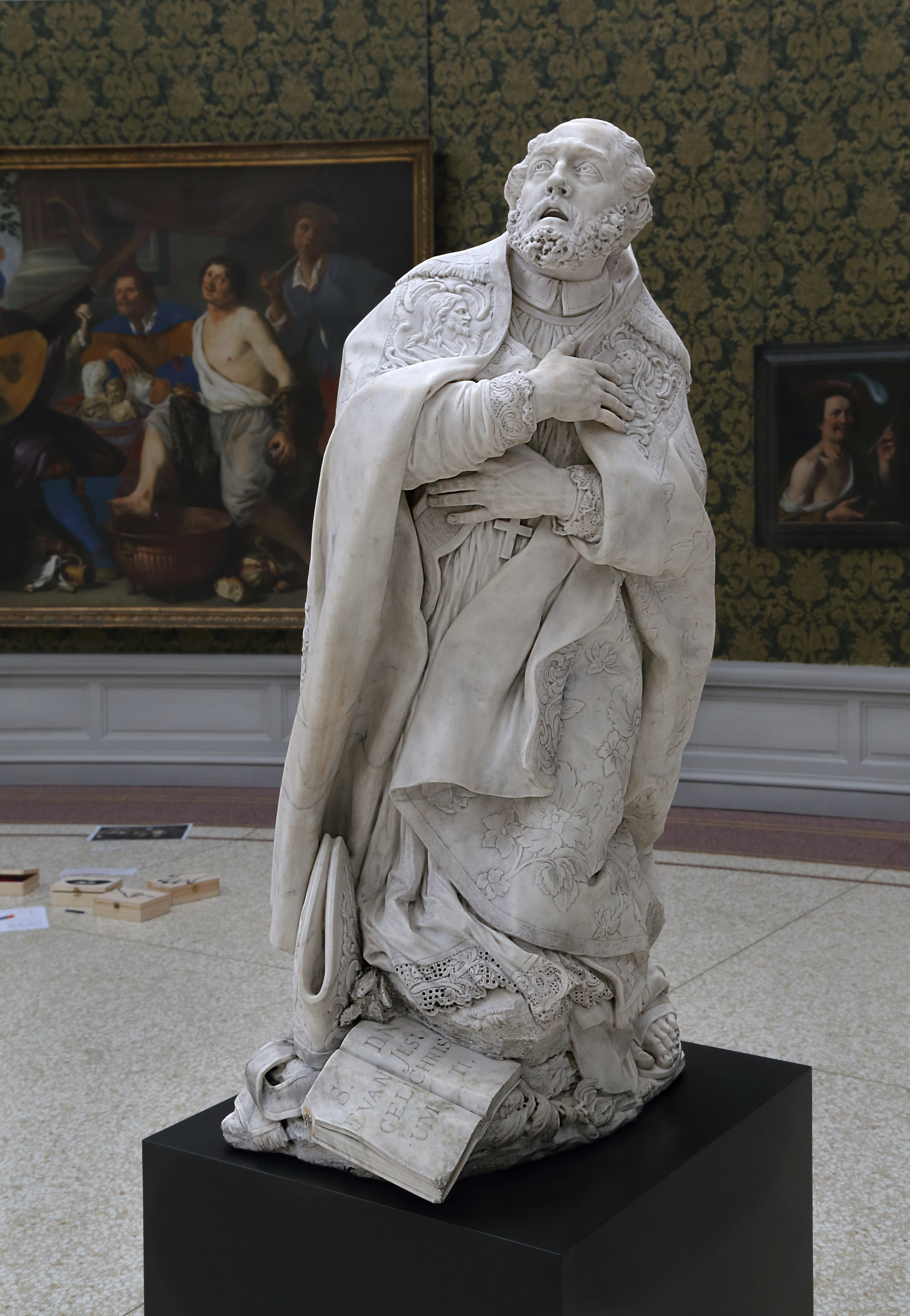 Laurent Delvaux Ghent 1696 – Nijvel 1798 St Livinus. Marble. Museum of Fine Arts, (Museum voor schone kunsten) Ghent, Belgium.